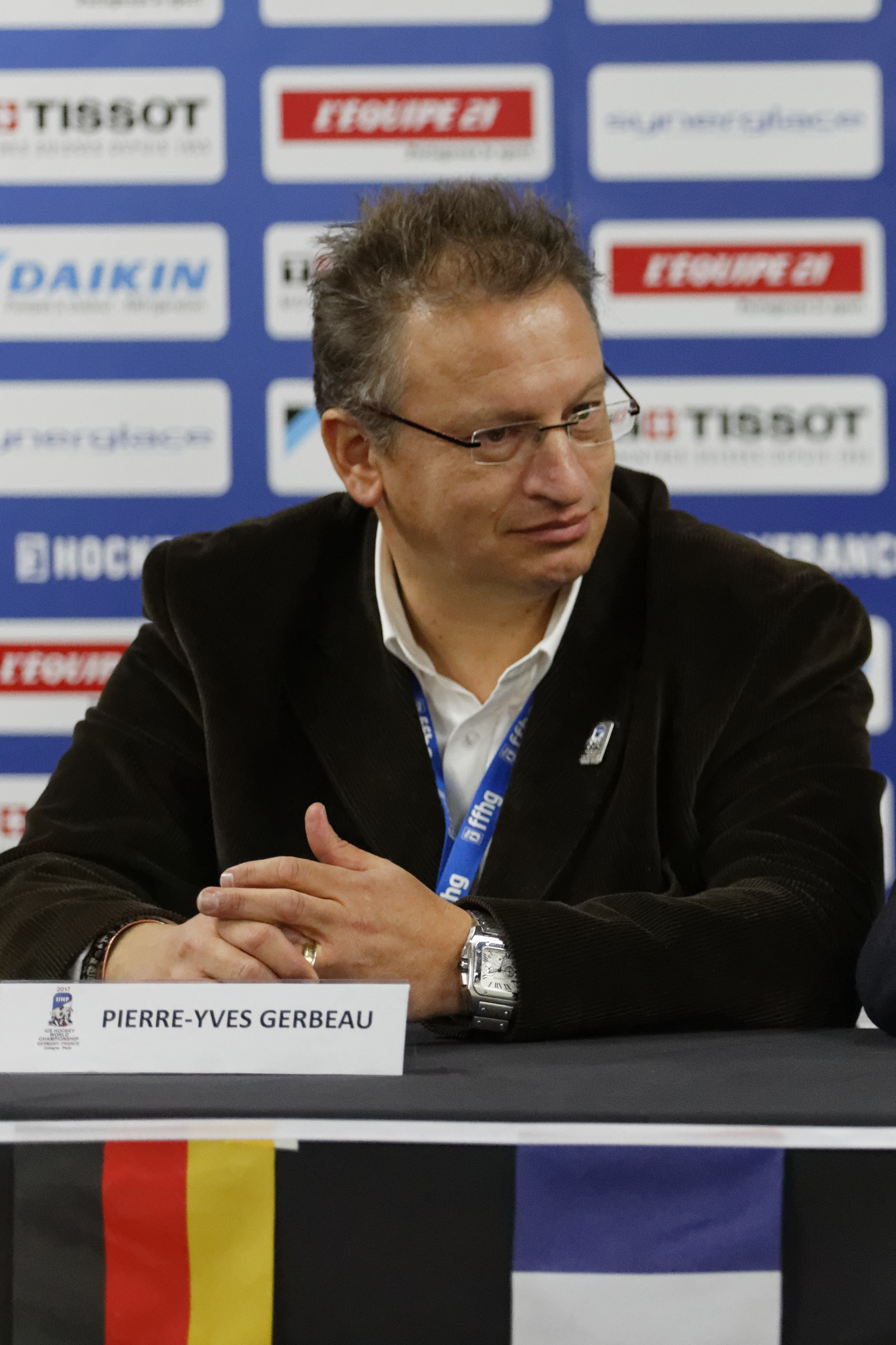 Pierre-Yves Gerbeau, vice-president of the French Organizing Committee of the 2017 Ice Hockey World Championship, during the press conference before the final of the Ice Hockey French Cup 2014.